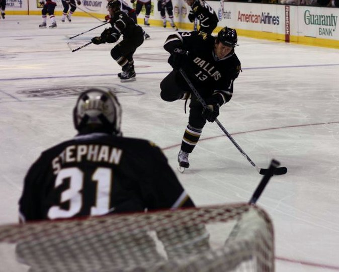 Krystofer Barch shoots, while Tobias Stephan in goal